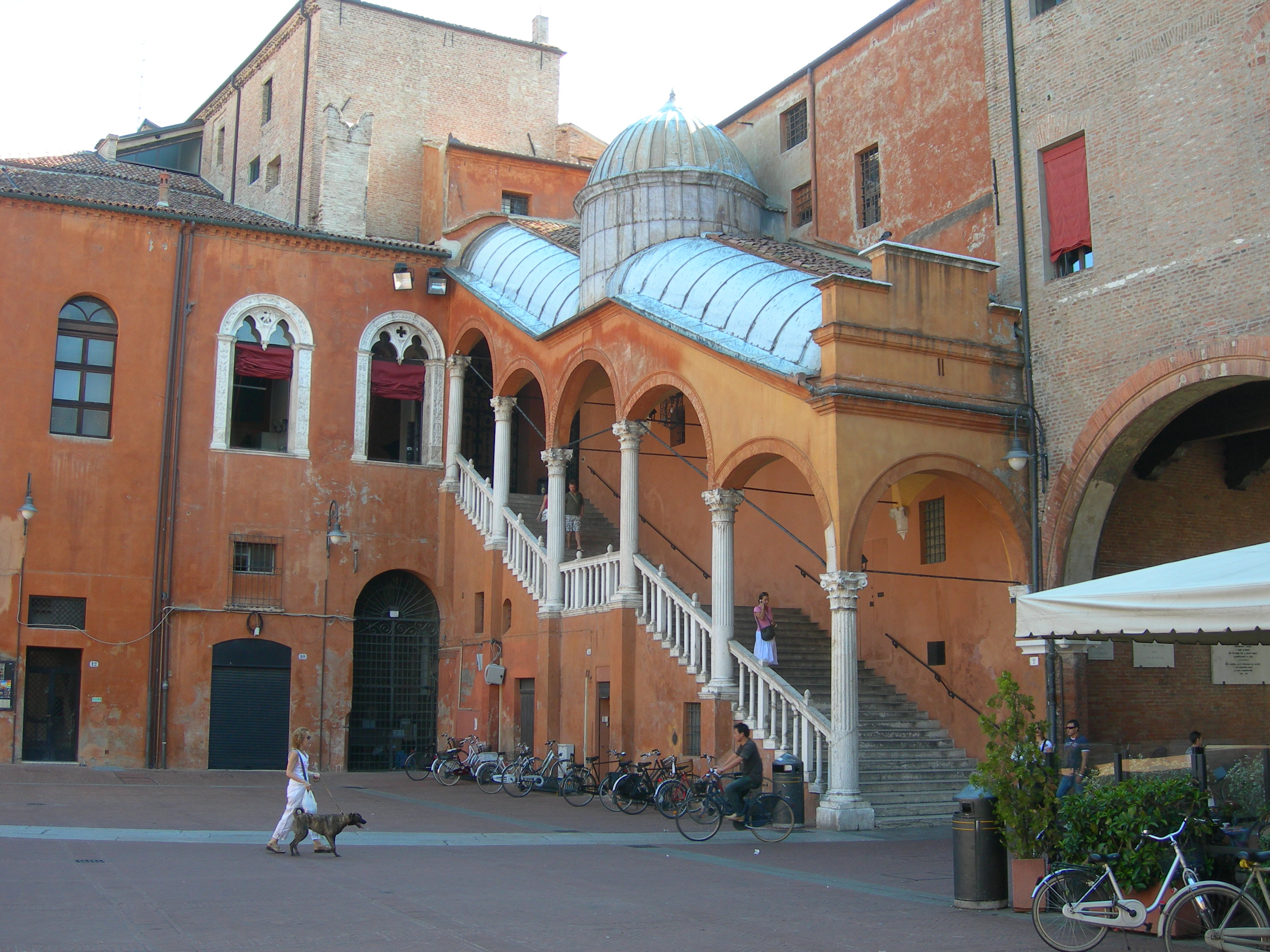 Scalone d'Onore (Staircase of Honour) of the Palazzo Municipale in Ferrara, by Pietro Benvenuto degli Ordini (1481).